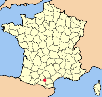 Location of the village Pech-Luna in France